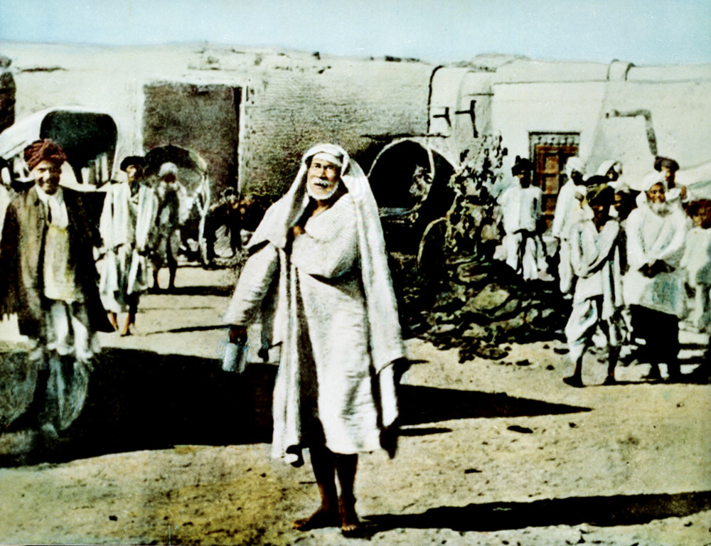 Sai Baba of Shirdi, Sai Baba died in 1918. Public domain.